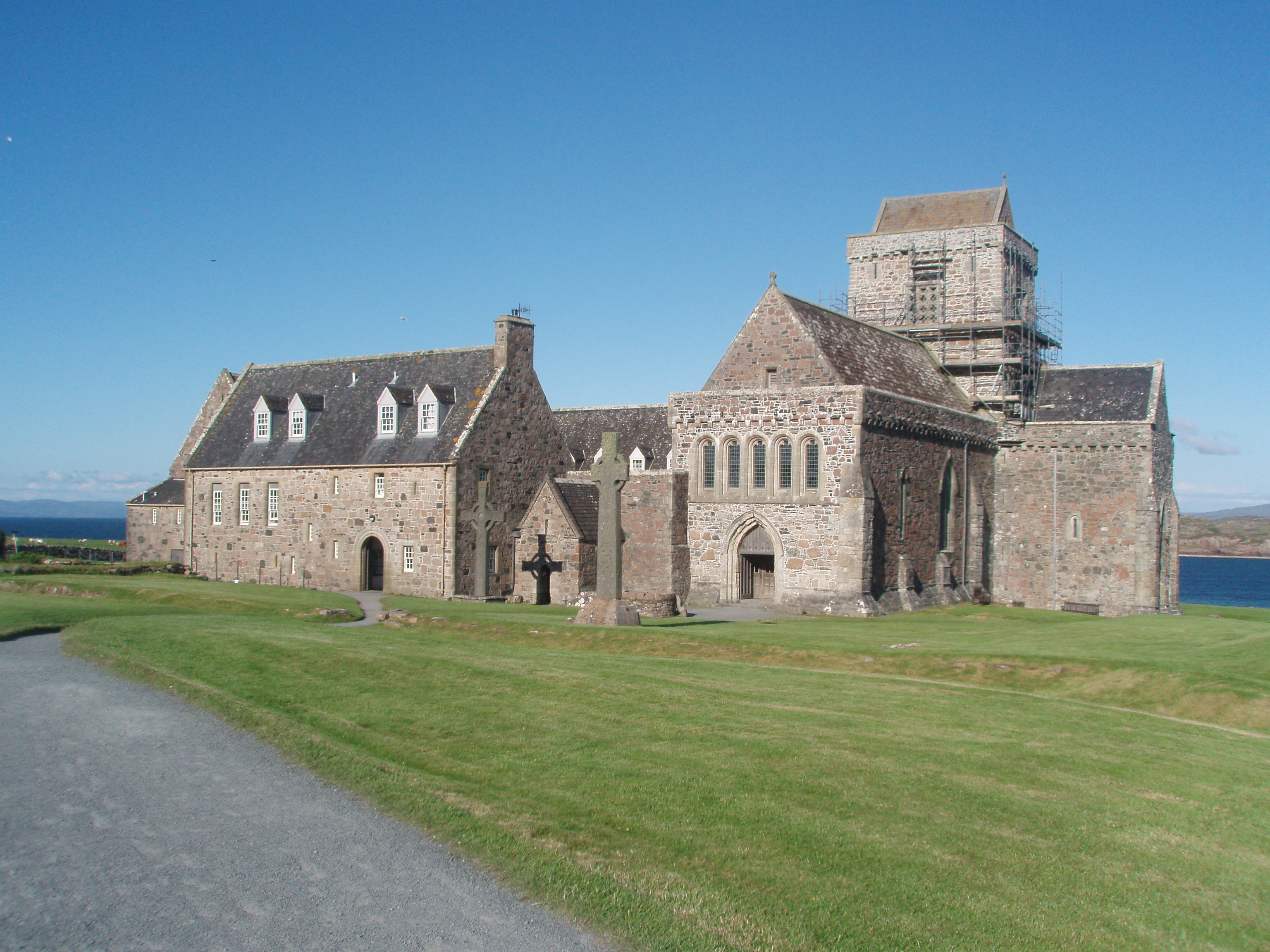 Iona Abbey in July 2011.